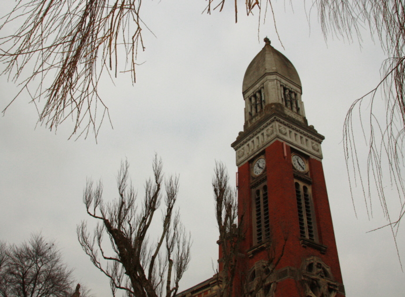 Church of Steenwerck (Nord France)